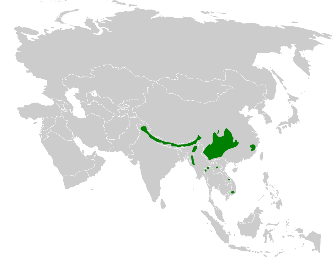 Sylviparus modestus distribution map, based on